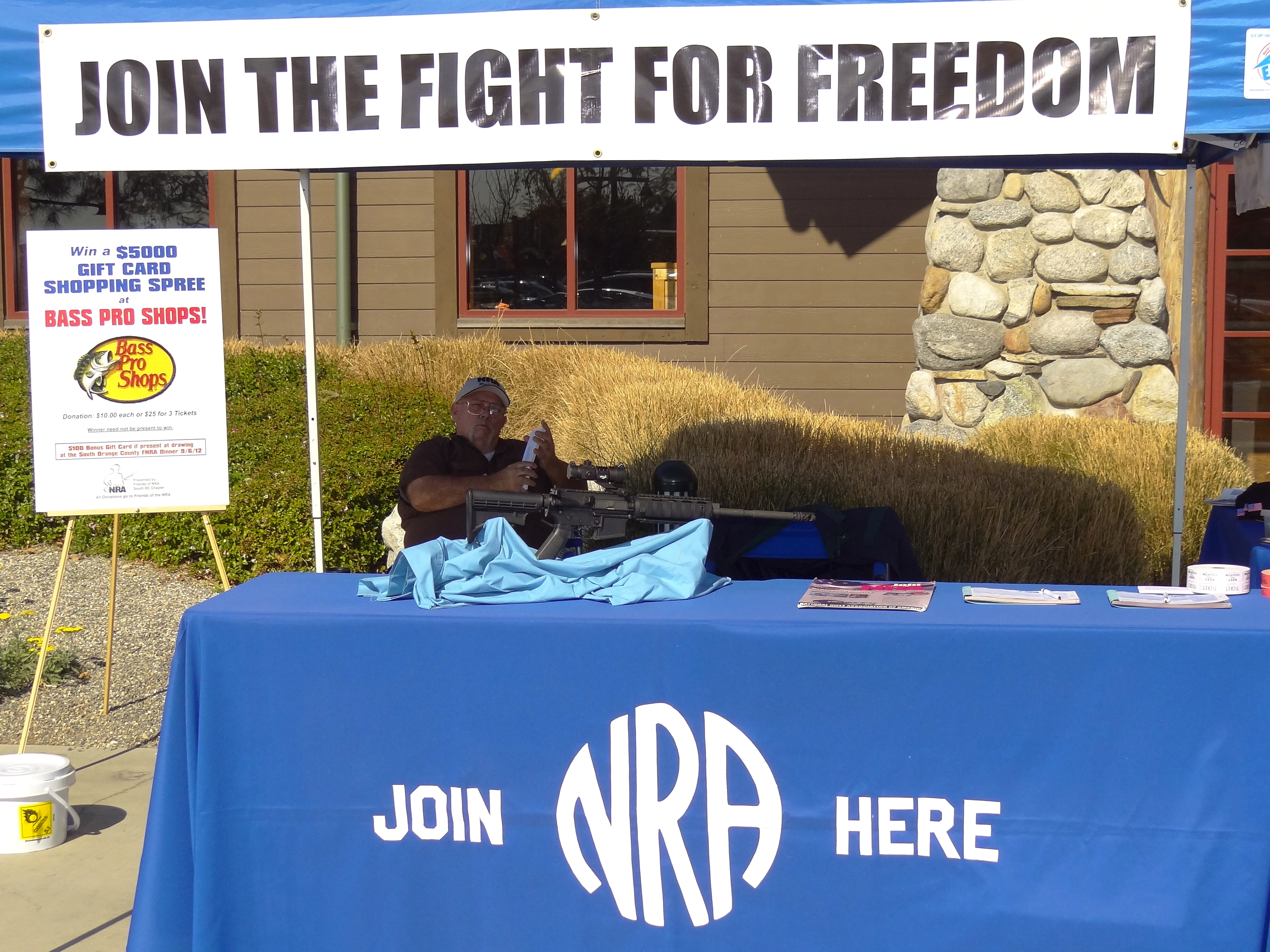 National Rifle Association Booth - Greater Los Angeles, CA - USA